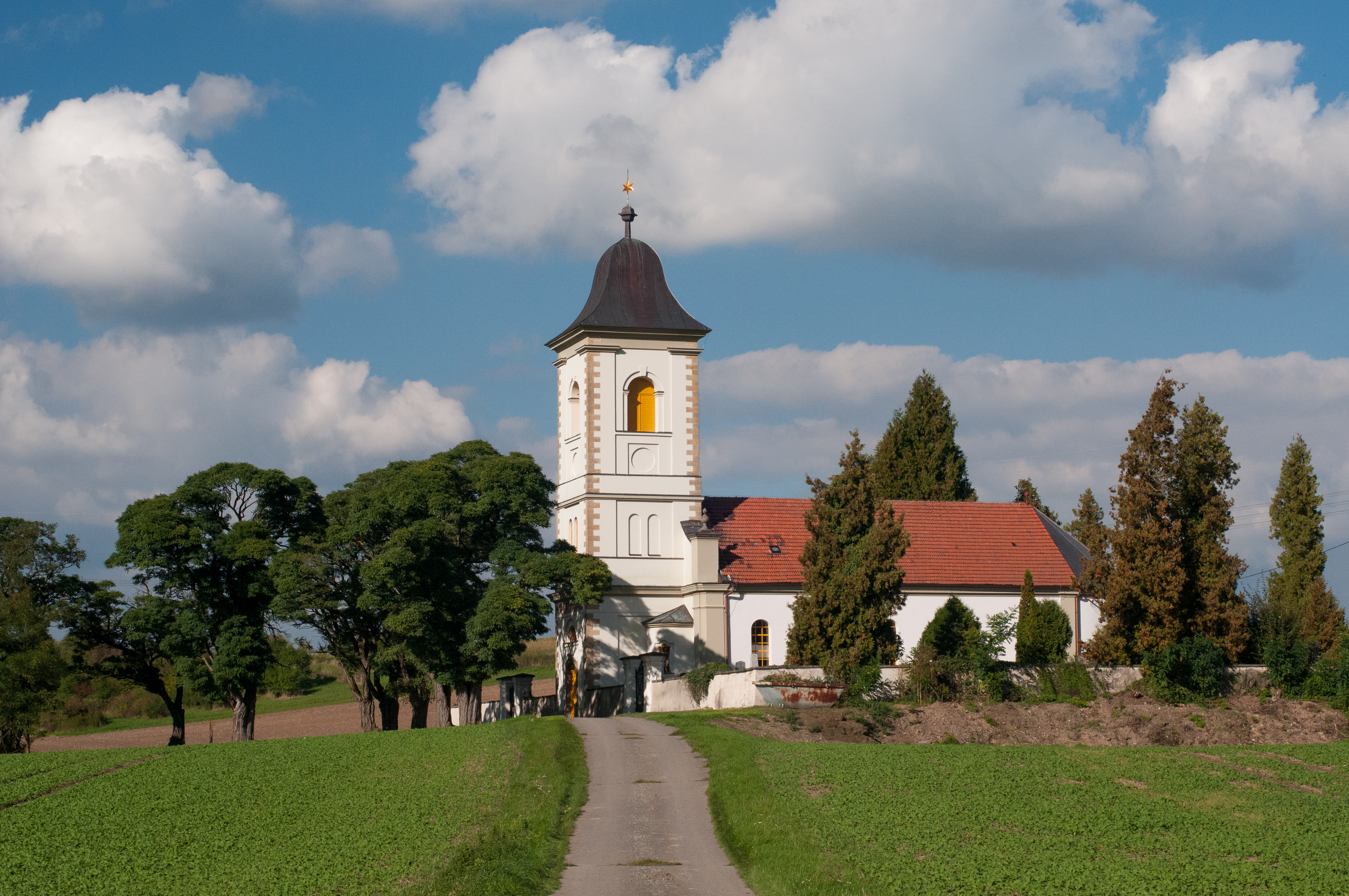 Protestant Church, Klášter nad Dědinou, Eastern Bohemia, Czech Republic, EU